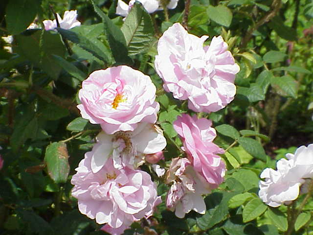 Species: Rosa sp. Family: Rosaceae Cultivar: General Kleber, Robert 1856 Image No. 121